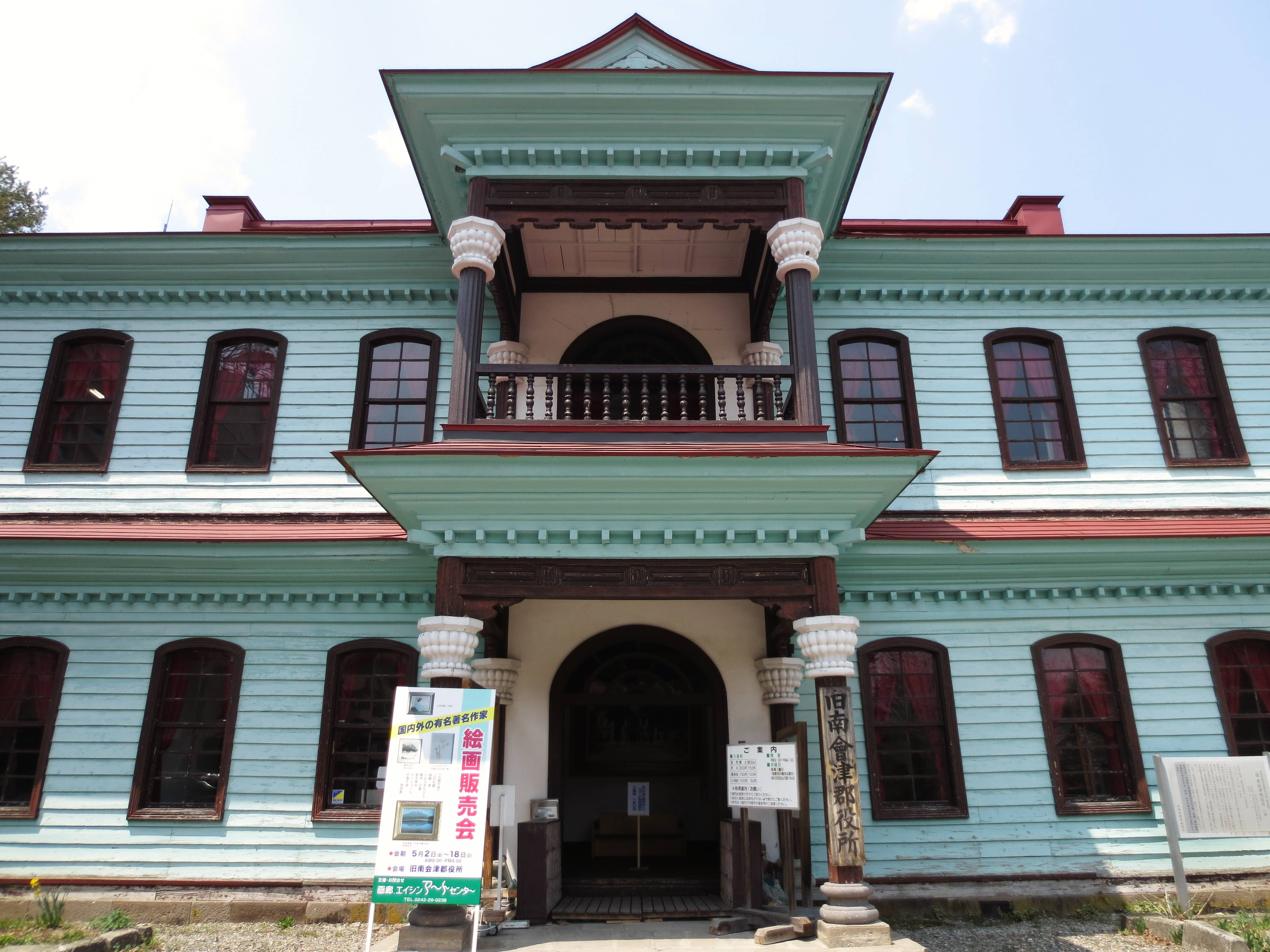 Old Minami Aizu County Hall.